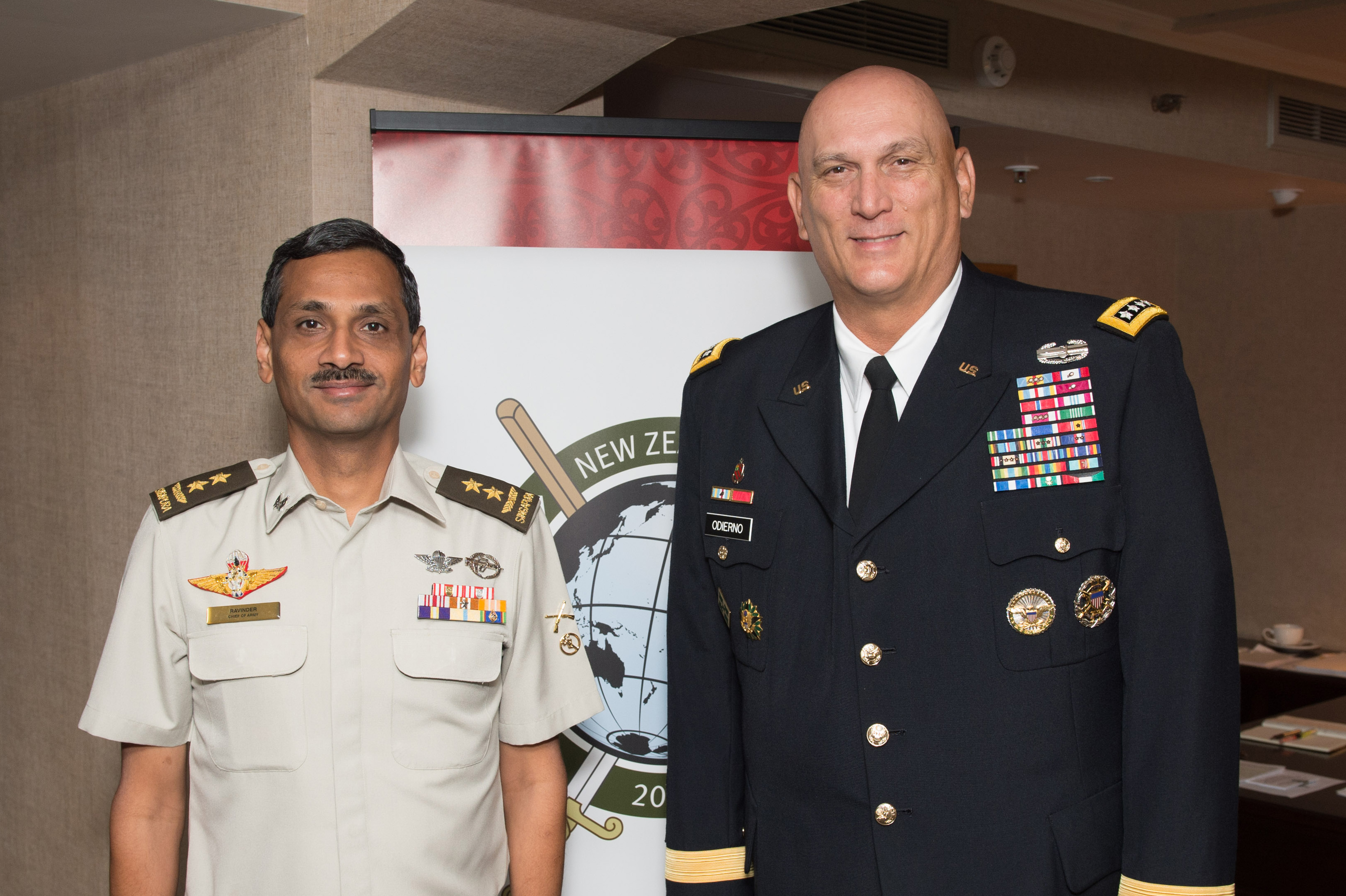 U.S. Army Chief of Staff Gen. Ray Odierno meets Singapore Chief of Army Maj. Gen. Ravinder Singh during the Pacific Armies Chiefs Conference in Auckland, New Zealand Sept. 11, 2013. (U.S. Army photo by Staff Sgt. Teddy Wade/ Released)